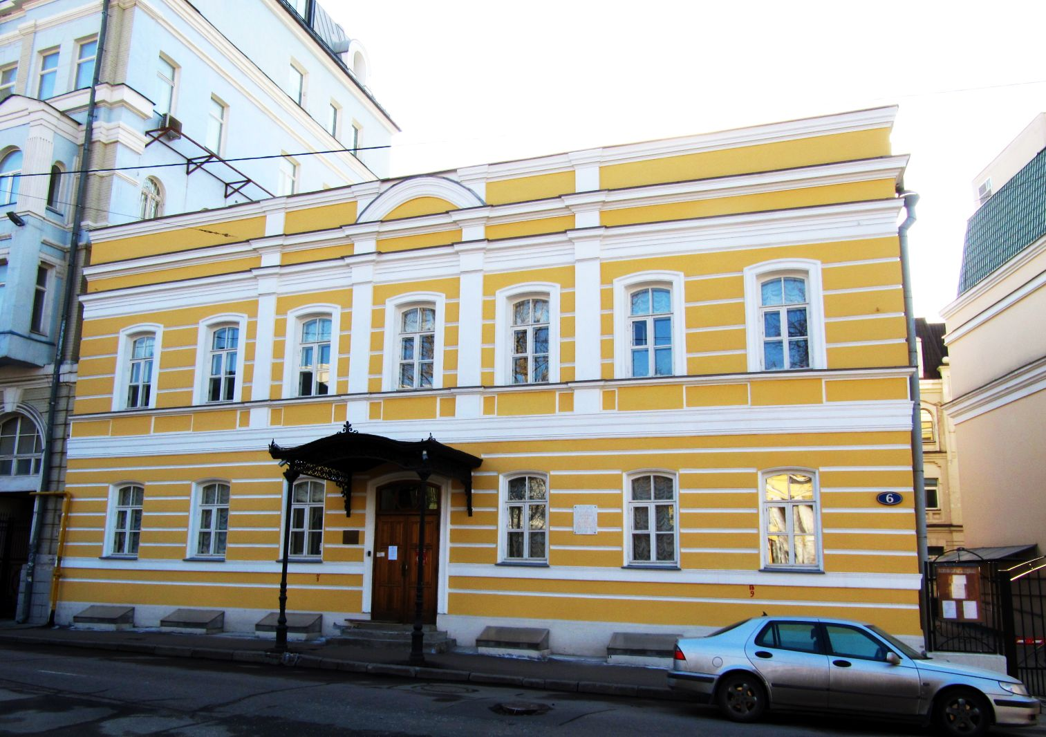 House-Museum of Marina Tsvetaeva. Moscow, Borisoglebsky Lane, 6.